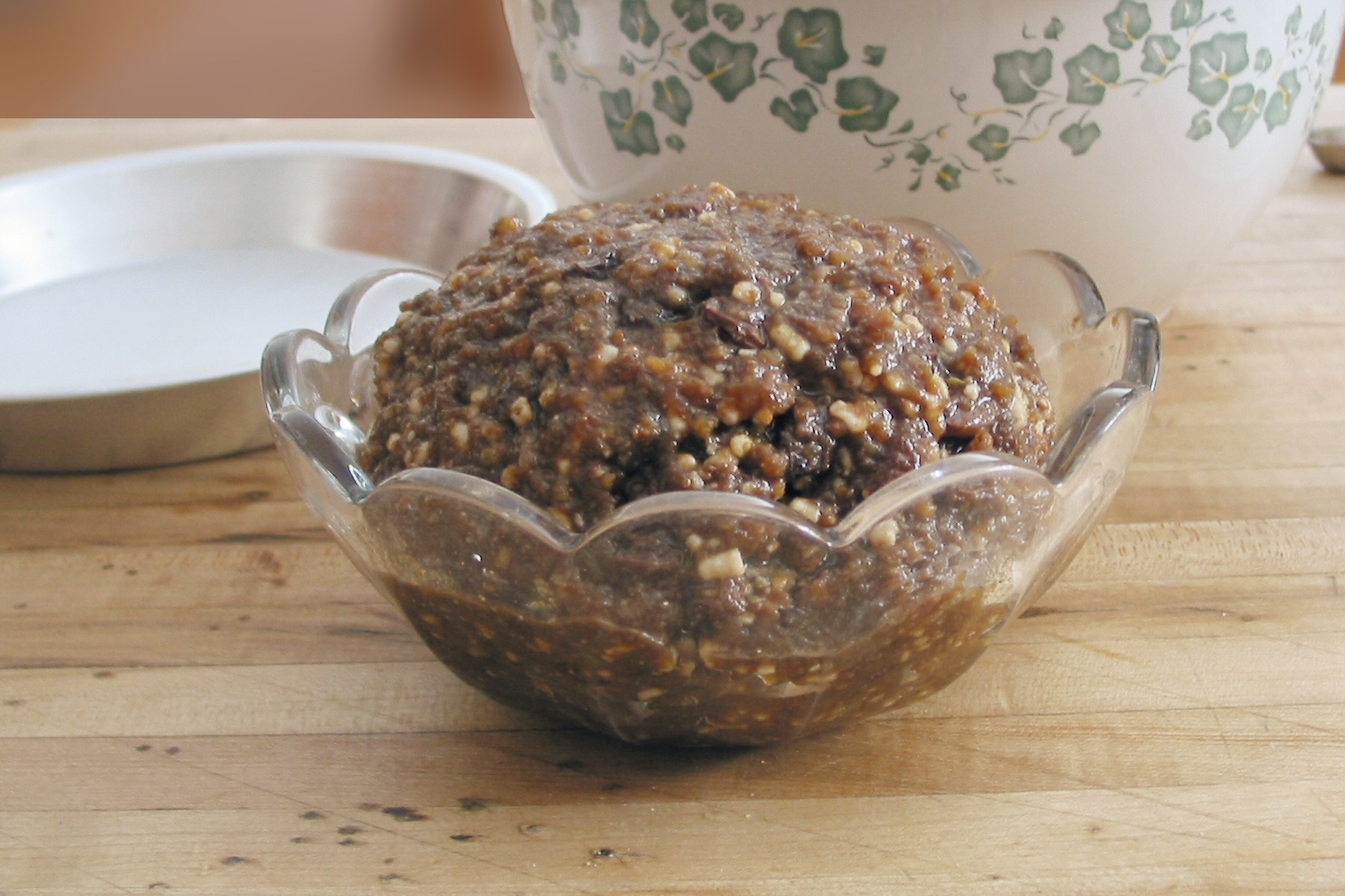 Homemade mincemeat from a market in Hallowell, Maine, USA. Contains Apples, Beef, Sugar, Raisins, Suet, Molasses, Vinegar and Spices.